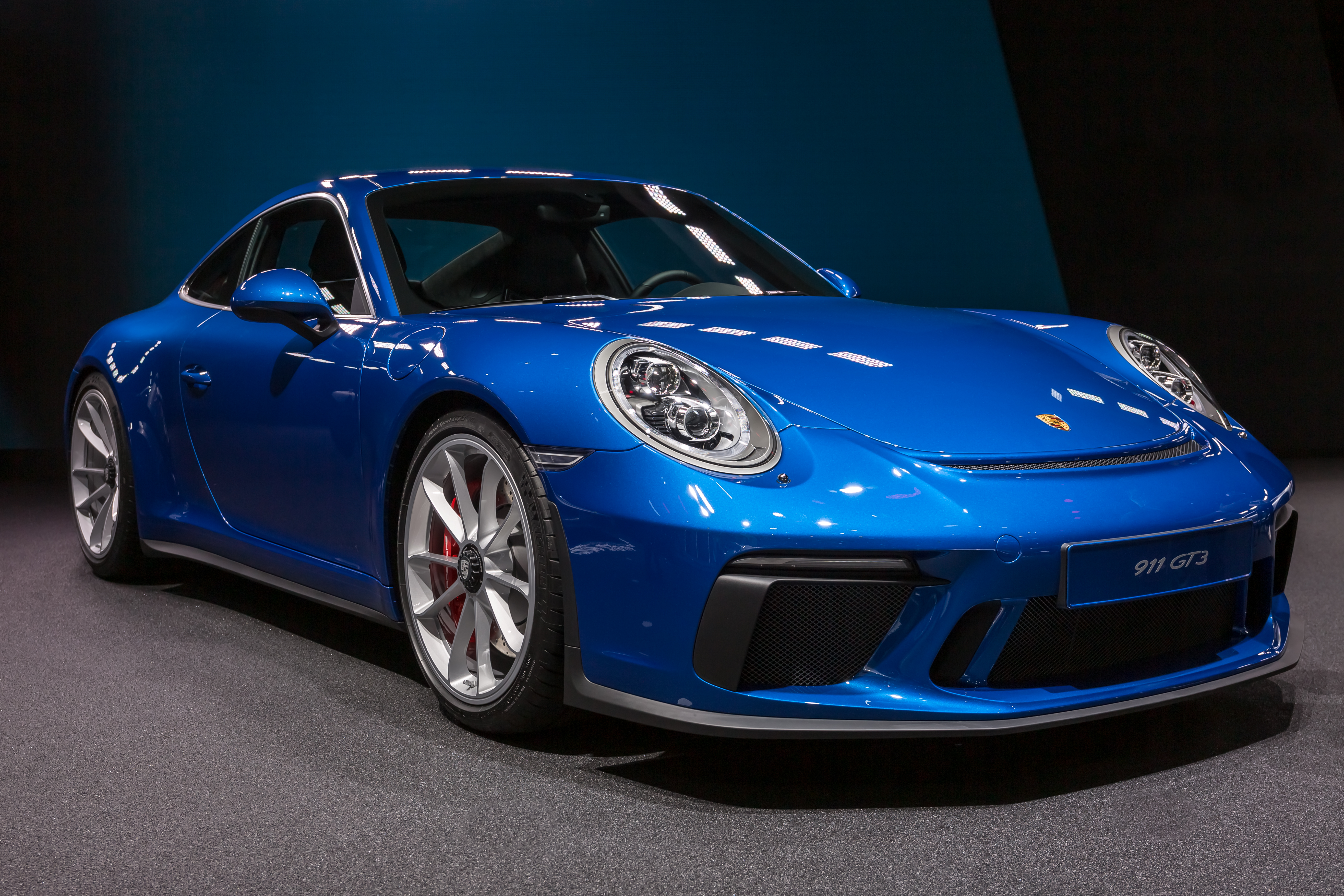 Porsche 911 GT3 Touring, IAA 2017